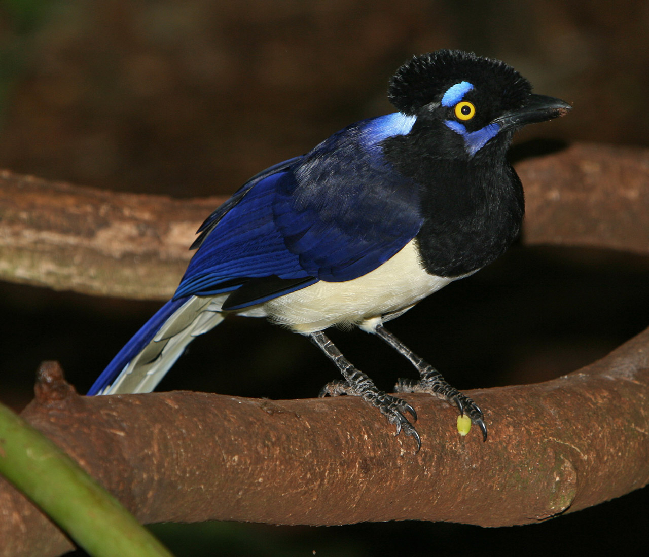 Plush-crested Jay (Cyanocorax chrysops) shot at Foz do Iguaçu, Brazil